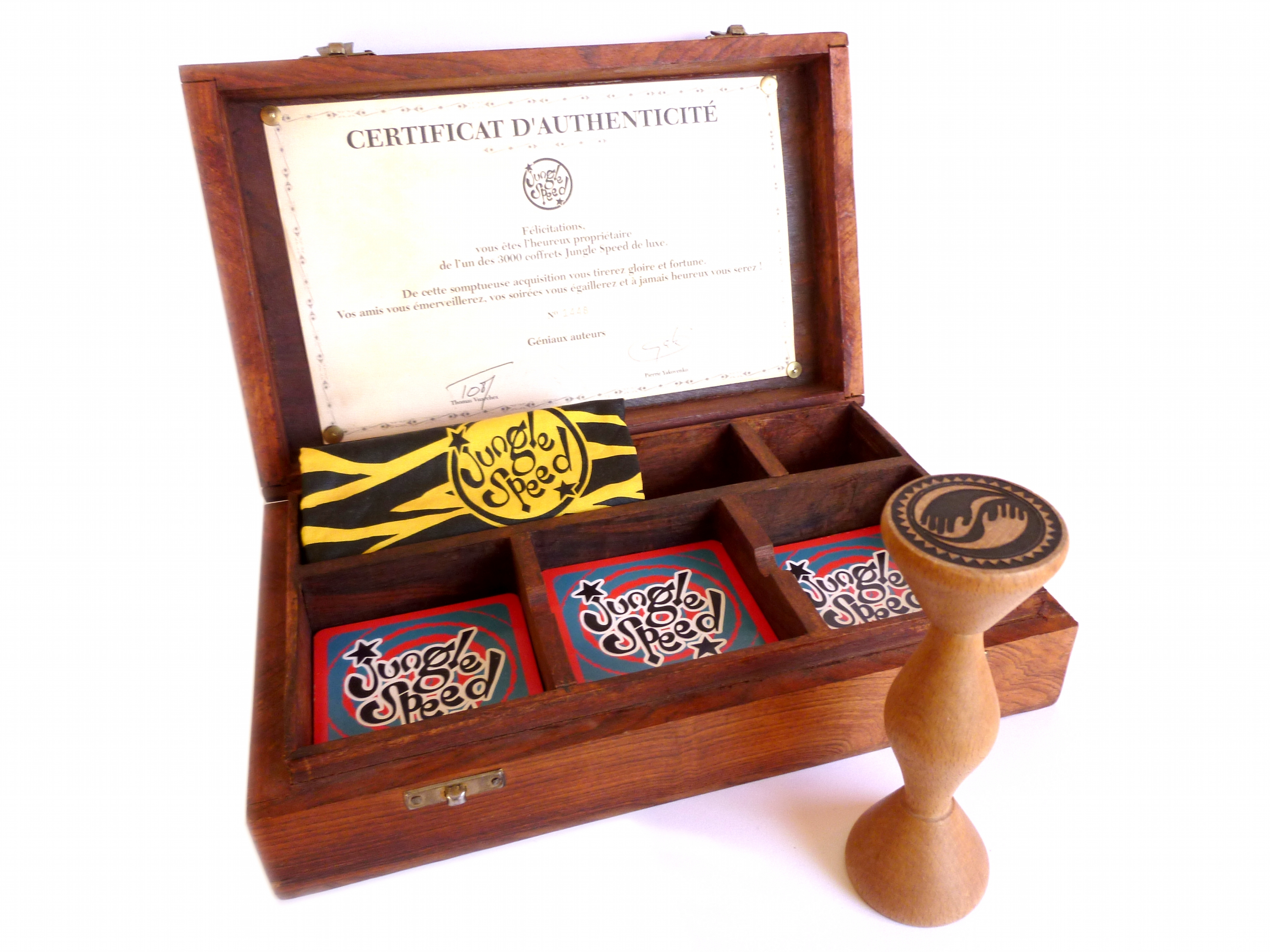 Photography of the Jungle Speed game, Luxe edition.